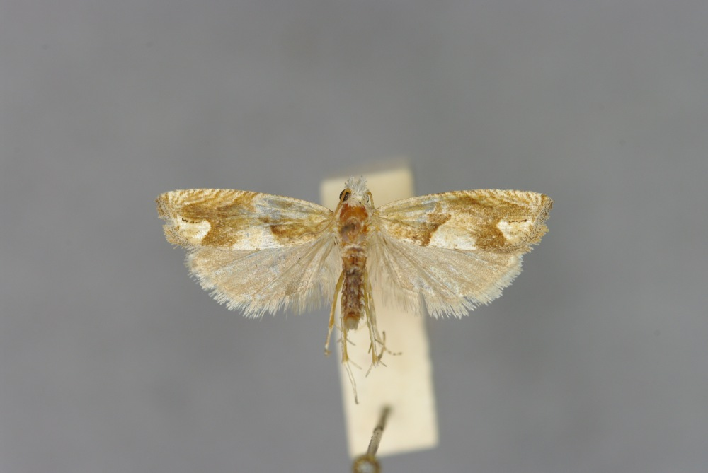 Eucosma conterminana